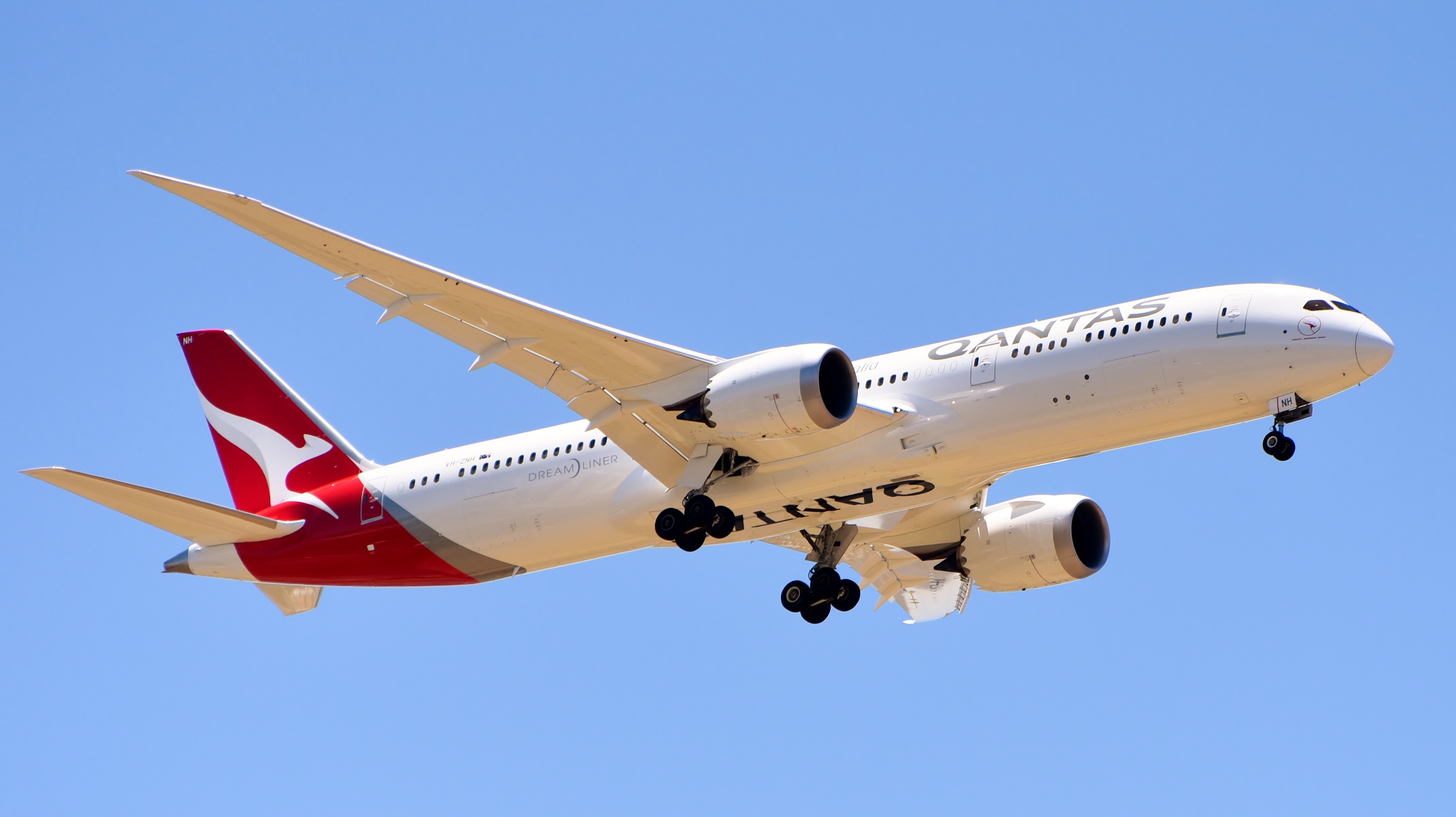 Qantas Boeing 787-9 VH-ZNH Great Barrier Reef on its final approach to Perth (PER/YPPH), Western Australia, at the end of its marathon non-stop flight from London Heathrow (LHR/EGLL) as QF10. Photo taken from Lilac Hill Park, Caversham, Western Australia.